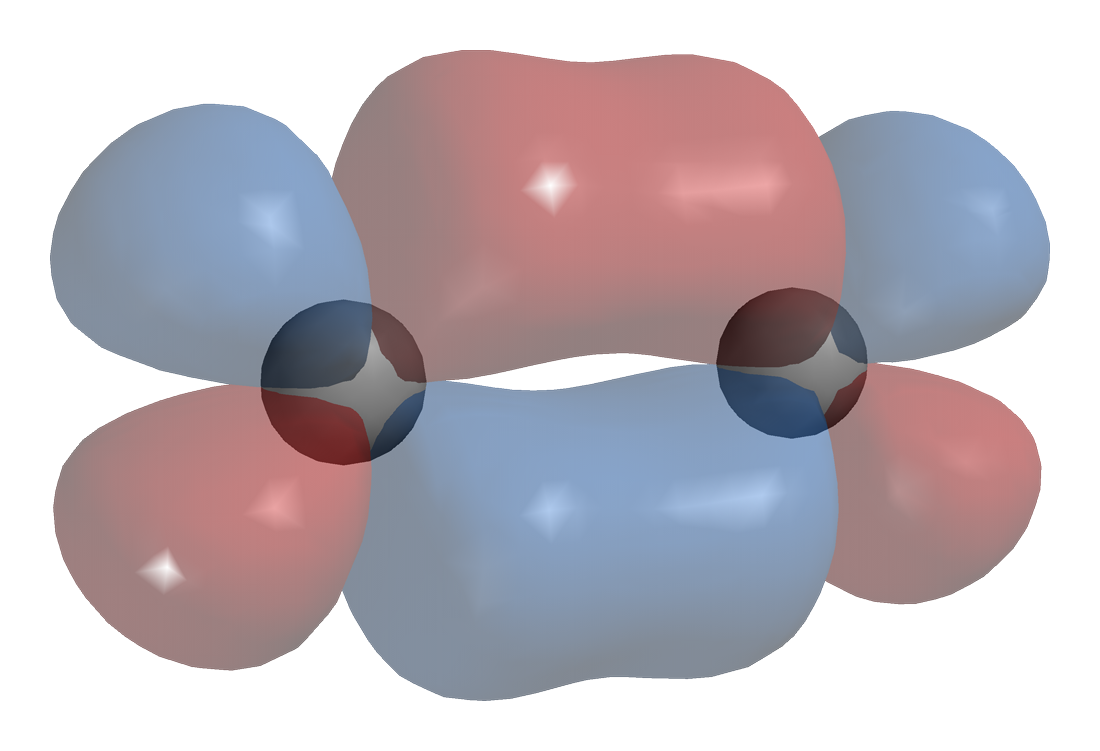 Space-filling model of a pi bond (bonding molecular orbital with π symmetry) generated by the overlap of two d orbitals